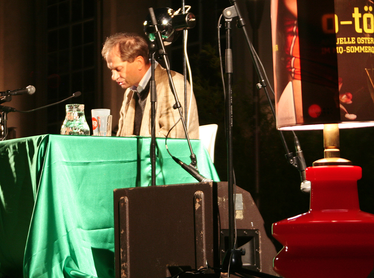 Austrian writer Josef Winkler reading at the literary festival O-Töne (MuseumsQuartier, Vienna)